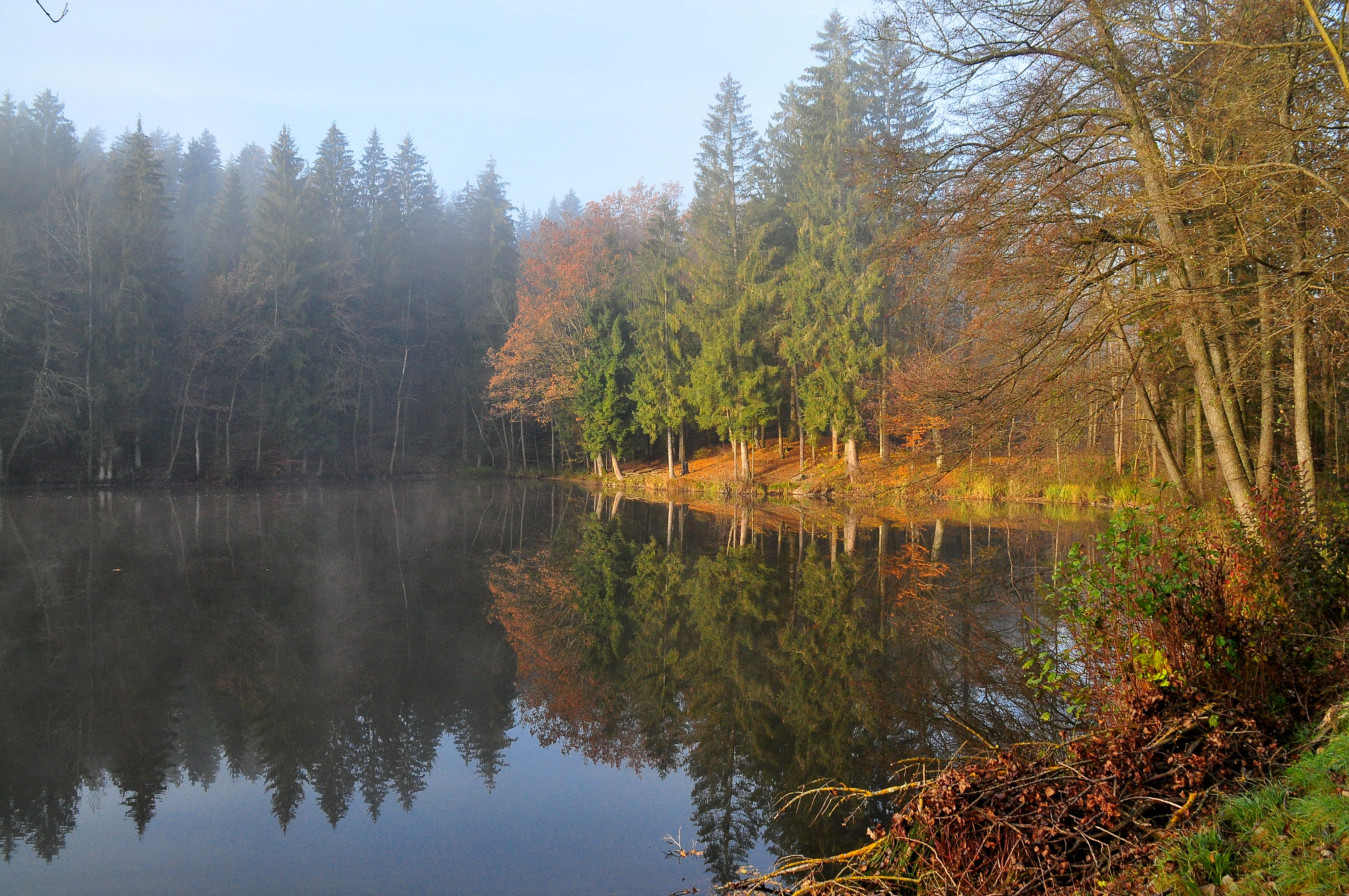 “Hallegg” pond in a morning mist in the 14th district “Wölfnitz” of the Carinthian capital Klagenfurt on the Lake Woerth, Carinthia, Austria